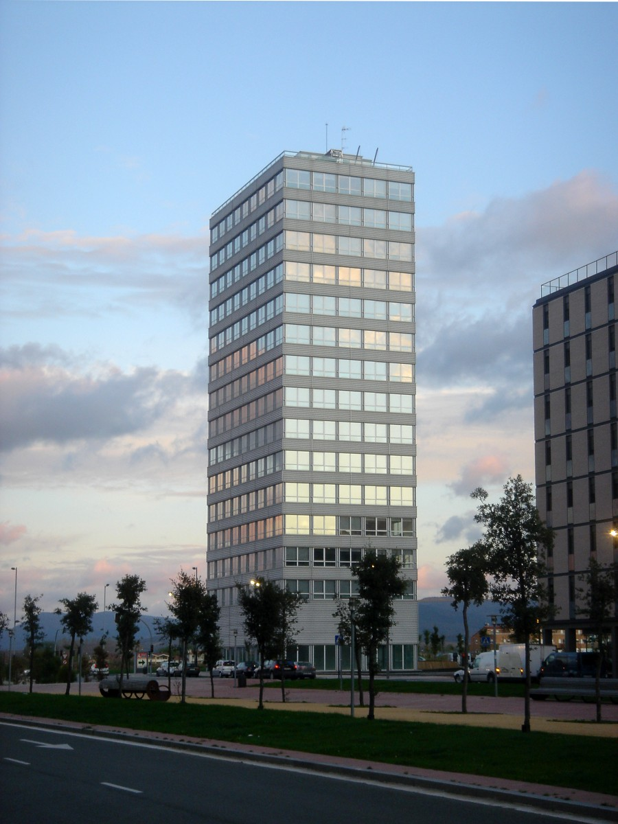 Bioclimatic tower in Salburua (Vitoria-Gasteiz, Basque Country, Spain)